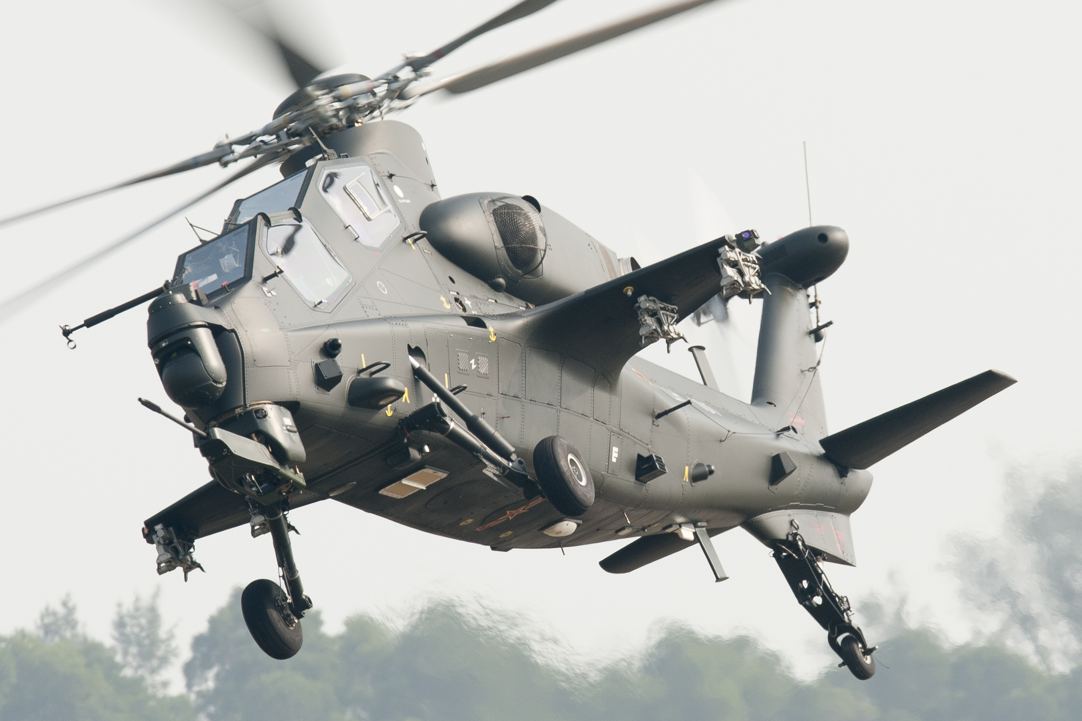 China International Aviation & Aerospace Exhibition 2012